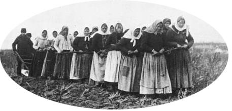 Doukhobor women are shown breaking the prairie sod by pulling a plough themselves, Thunder Hill Colony, Manitoba. c 1899